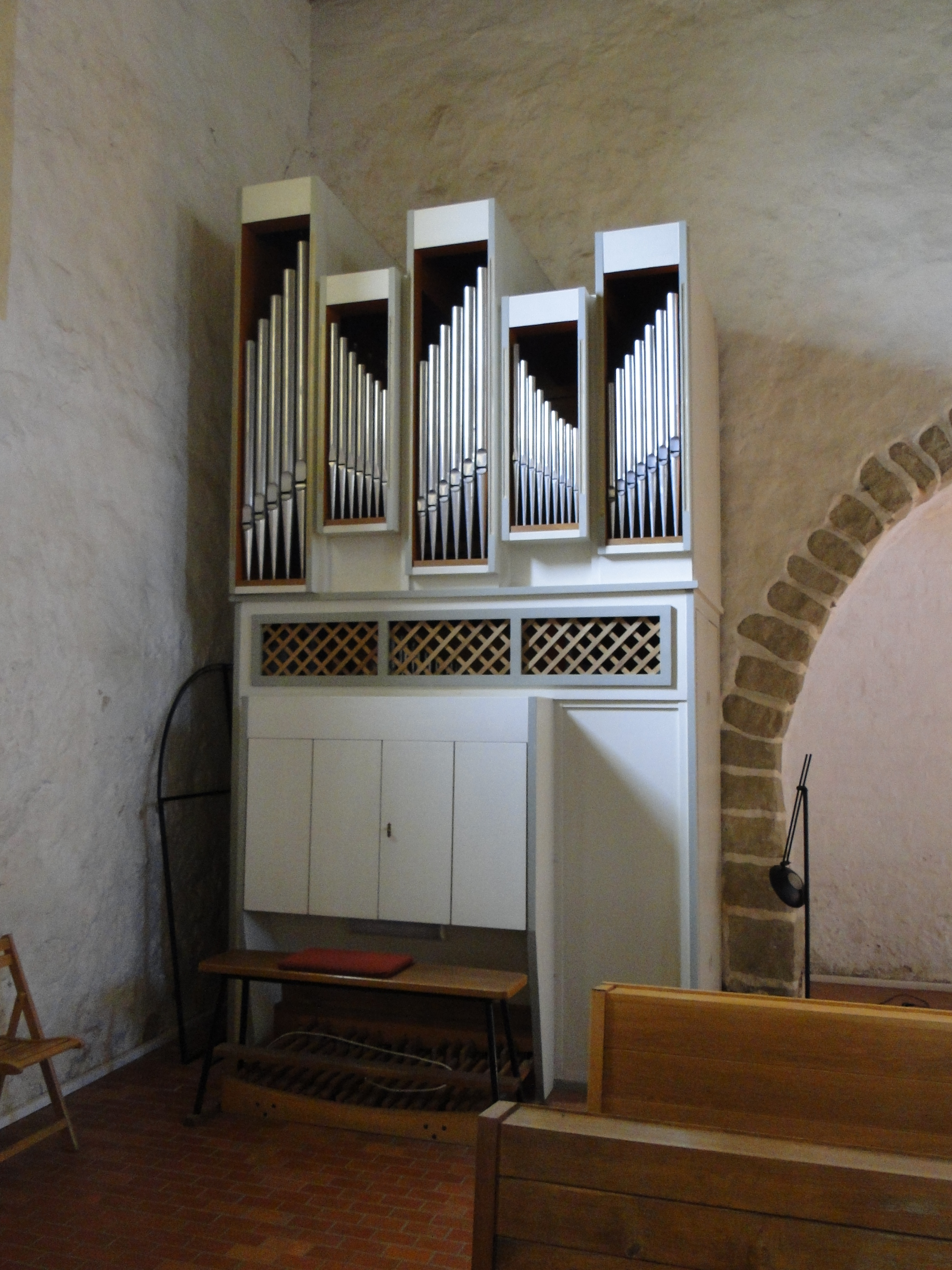 Church in Benthen, district Ludwigslust-Parchim, Mecklenburg-Vorpommern, Germany